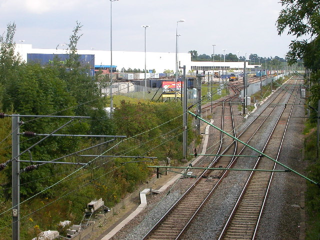 Crick - DIRFT. Entrance to container base off Rugby - Northampton line. Taken from A5 bridge.